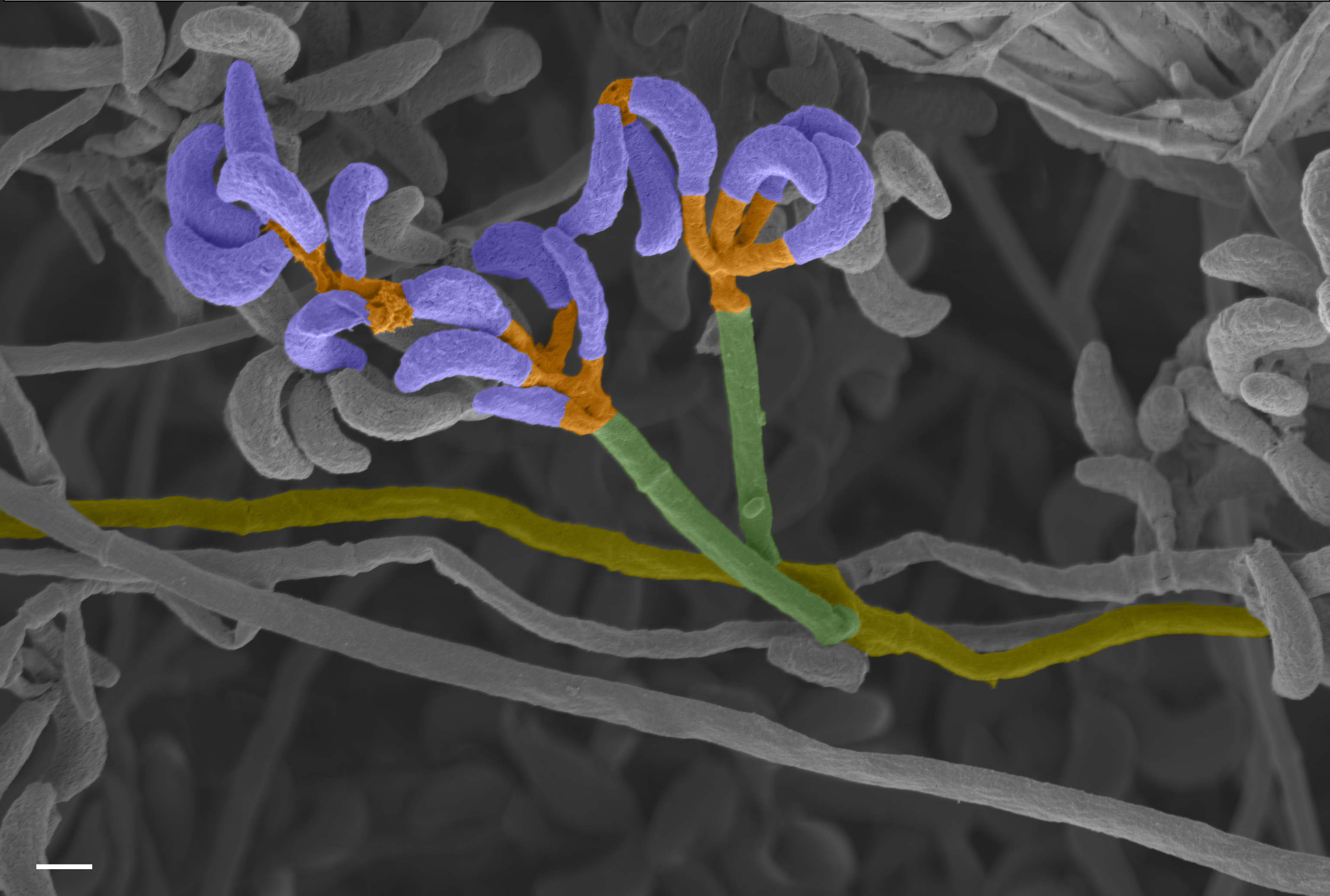 Original false-colored scanning electron micrograph of G. destructans culture (MYC80251) isolated from a Little Brown Bat (Myotis lucifugs) by Deborah J. Springer